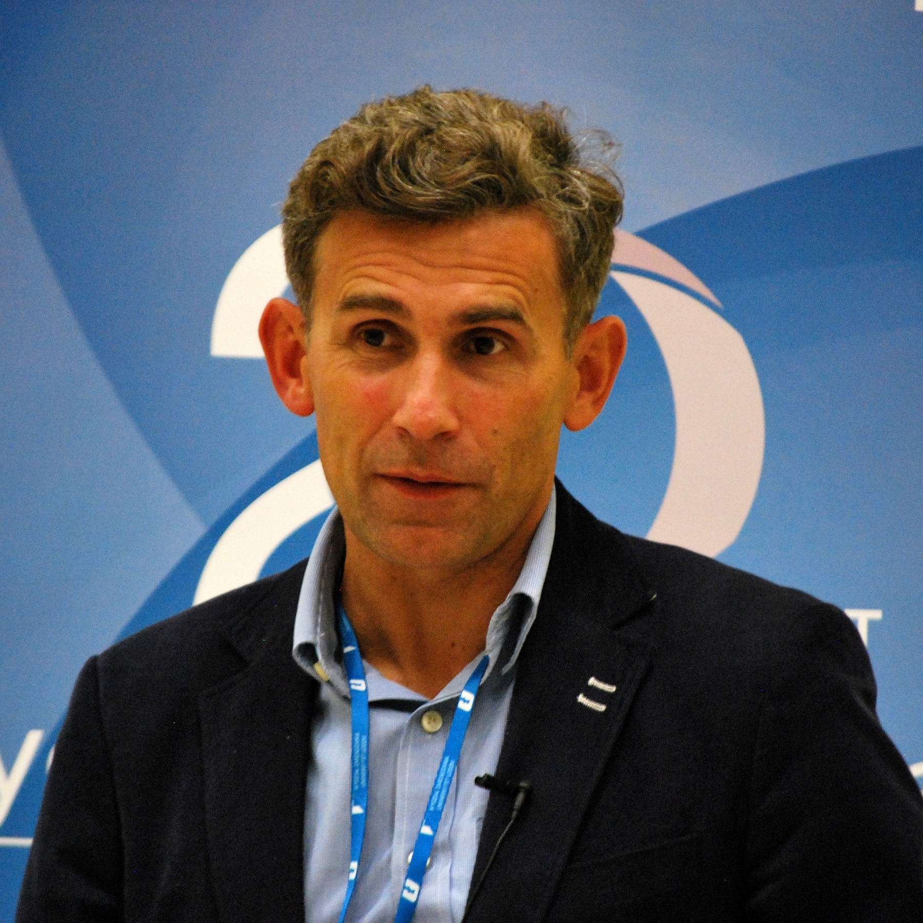 Robert Korzeniowski, multi gold medalist in race walk, Łódź, 1.10.2014 Conference "Management and Sports"